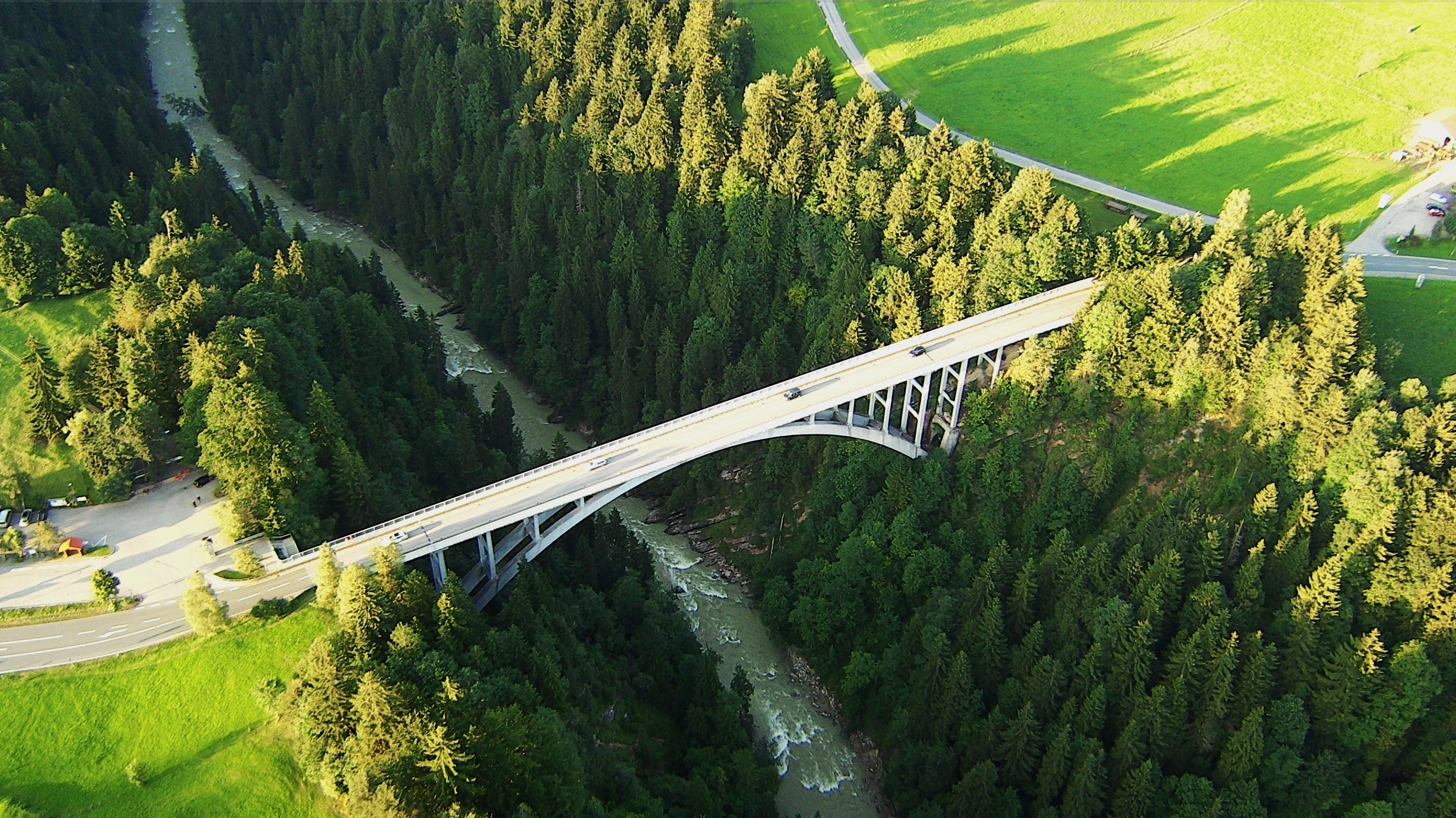 Valley of the Bavarian river Ammer with the Echelsbacher Brücke (bridge), near Bad Bayersoien (district Garmisch-Partenkirchen) and Rottenbuch (district Weilheim-Schongau), seen northwards from a hot air balloon)